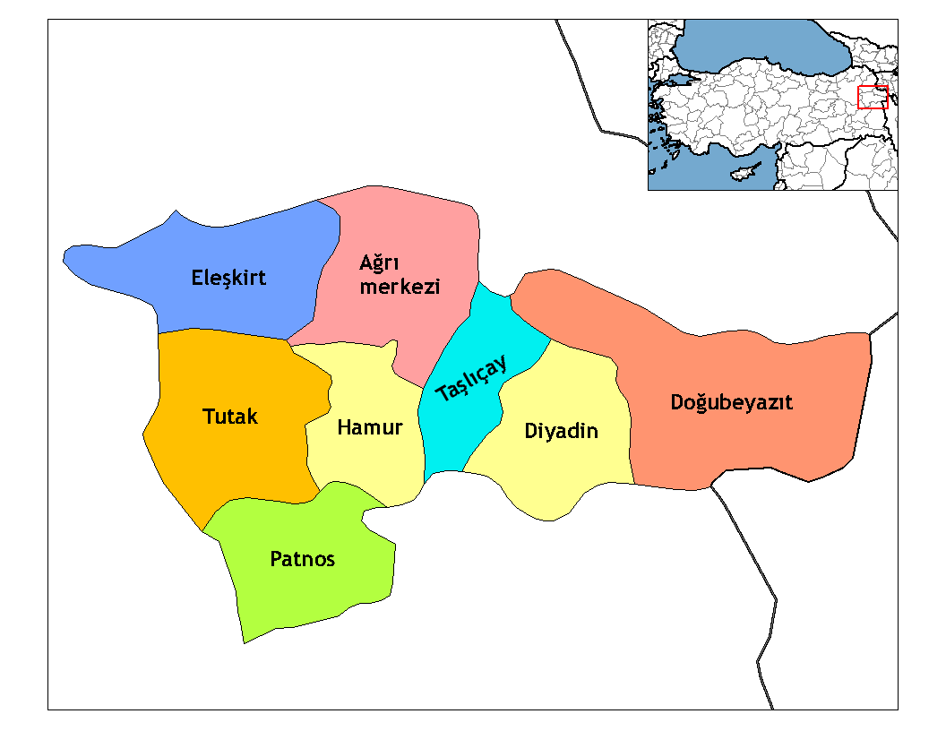 Map of the districts of Ağrı province in Turkey. Created by Rarelibra 16:27, 1 December 2006 (UTC) for public domain use, using MapInfo Professional v8.5 and various mapping resources. Edited by One Homo Sapiens Corrected text where İ,Ş,ı,ğ,or ş occurs in name. Source: [statoids-com]. Increased font size and enhanced color differences among adjacent districts.